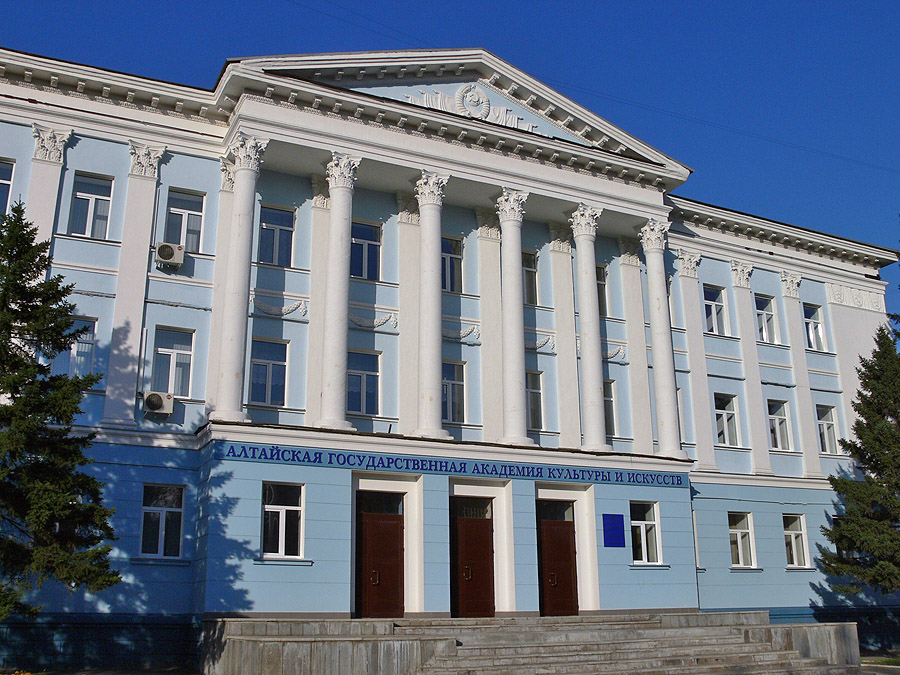 Altai State Academy of Culture and Arts